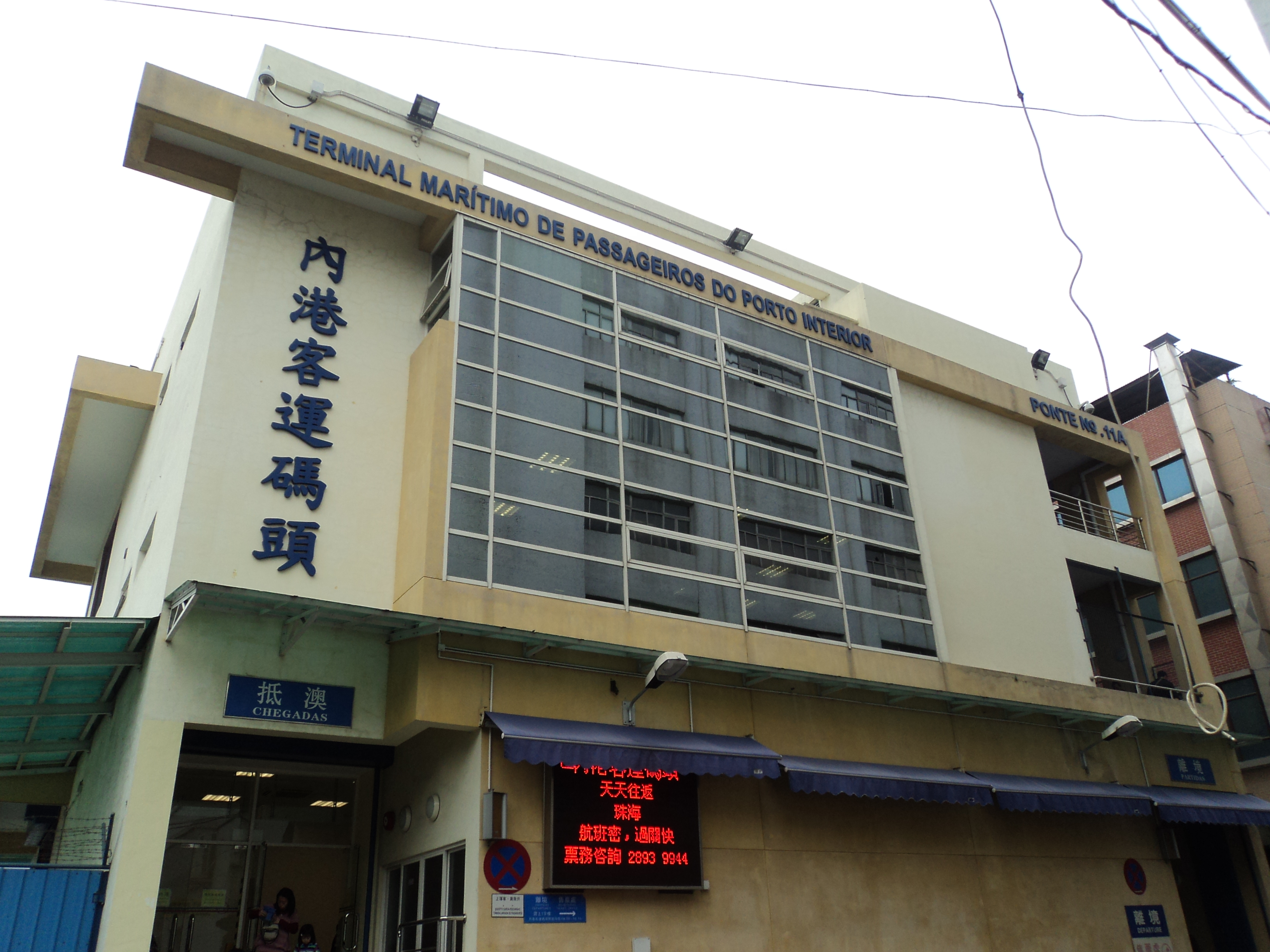 Interior sea port terminal for passengers in Macau. (Terminal Maritimo de Passageiros do porto interior.)